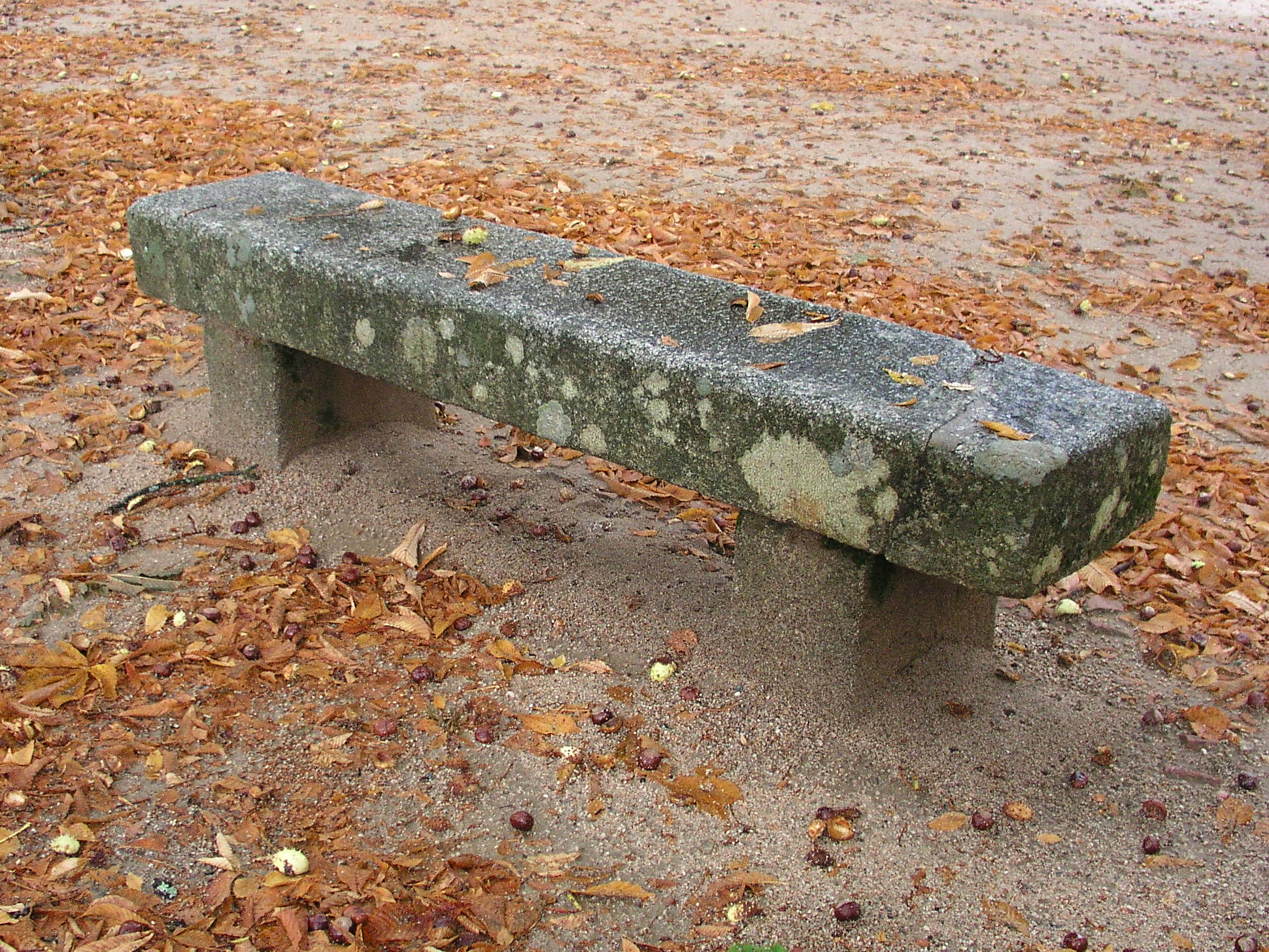 La Granja, Spain, park bench of natural stone. The photo was taken the 13th October 2005 by Håkan Svensson (Xauxa).